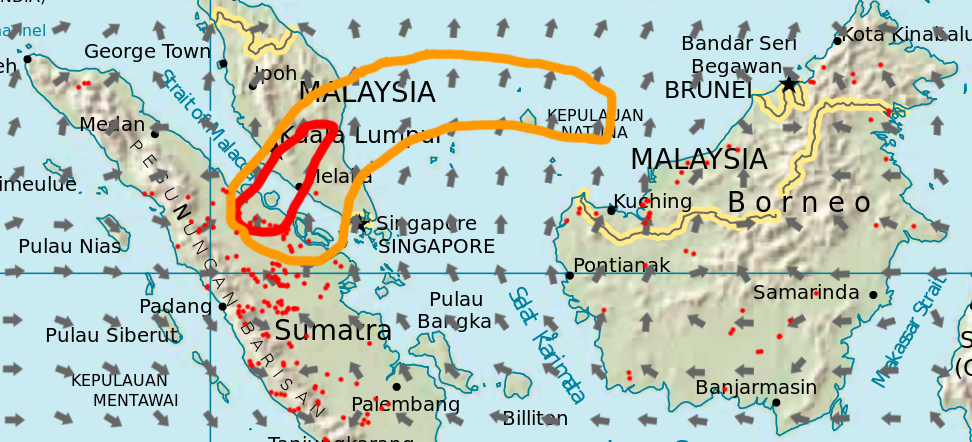 Extent of the 2013 Southeast Asian haze as of 23 June. Wind direction is shown by the grey arrows. Red dots indicate a haze source (hotspot). The red encirclement indicates areas where the haze is the thickest, while the orange encirclement indicates areas where the haze is significantly thick.